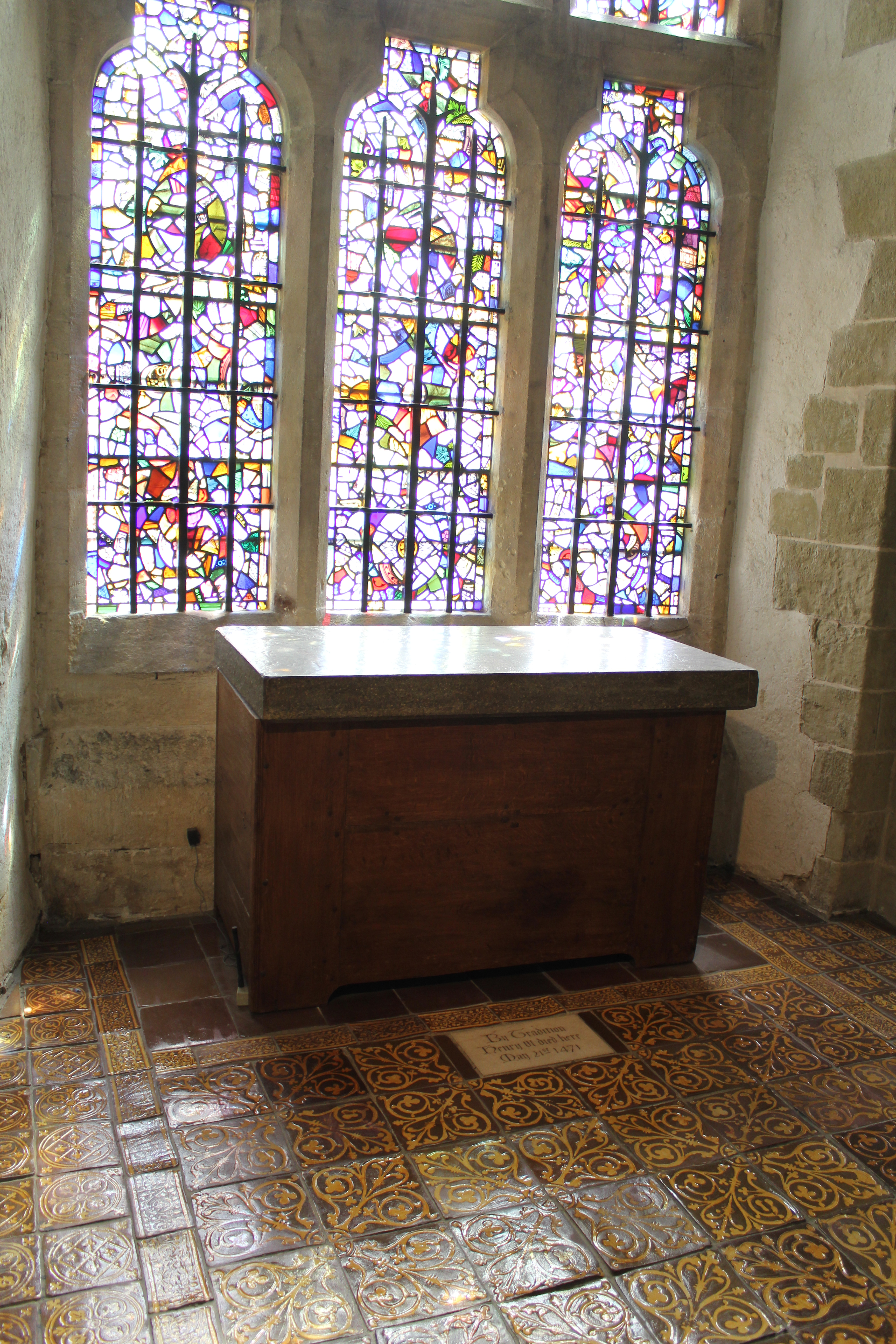 The Wakefield Tower Wikidata has entry Q17645576 with data related to this monument.